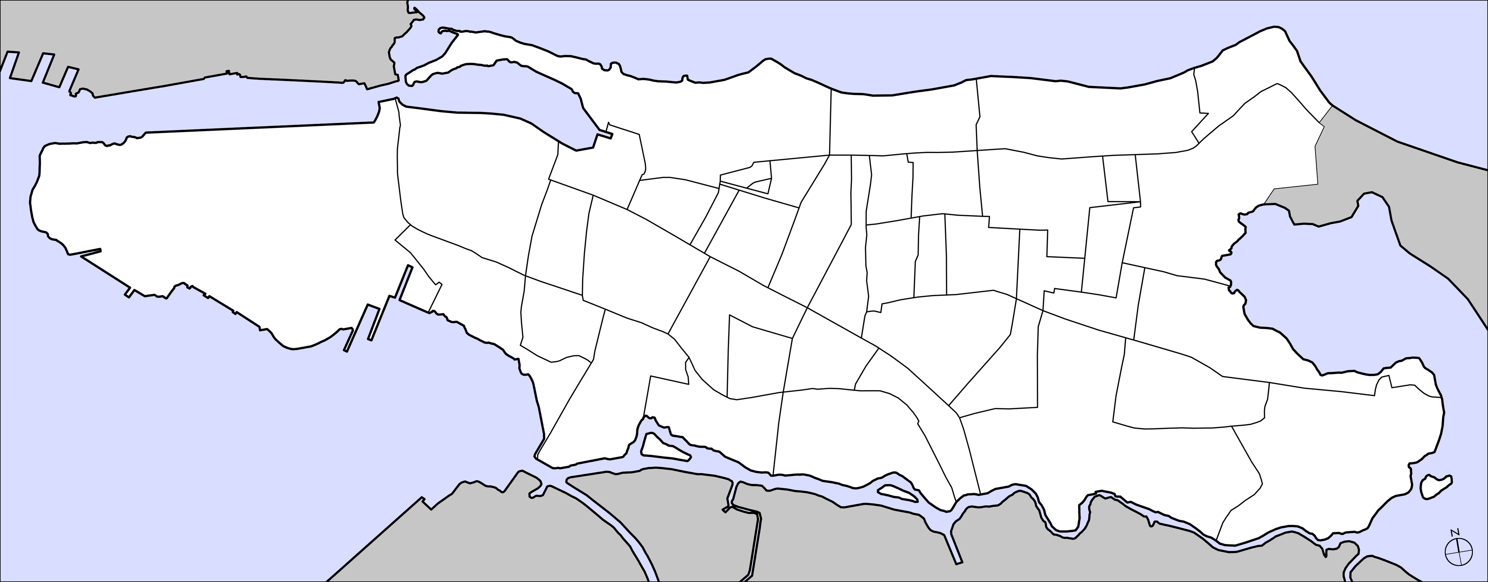 Sub-barrios of Santurce, Puerto Rico